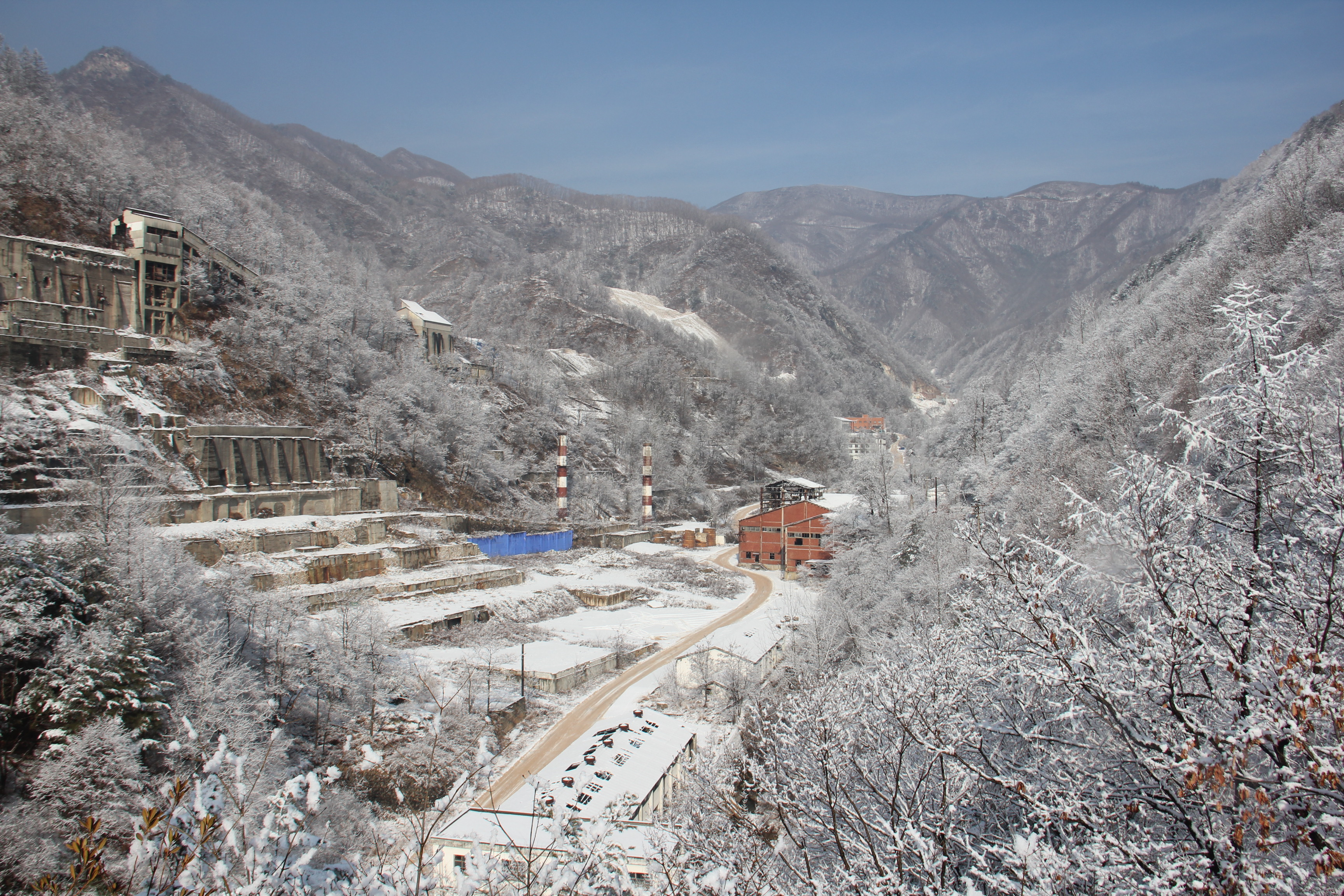 There is an old trace of KTMC's APT plant (red bricks) and crushing areas in ruins and it is the entrance to the Sangdong Mine.